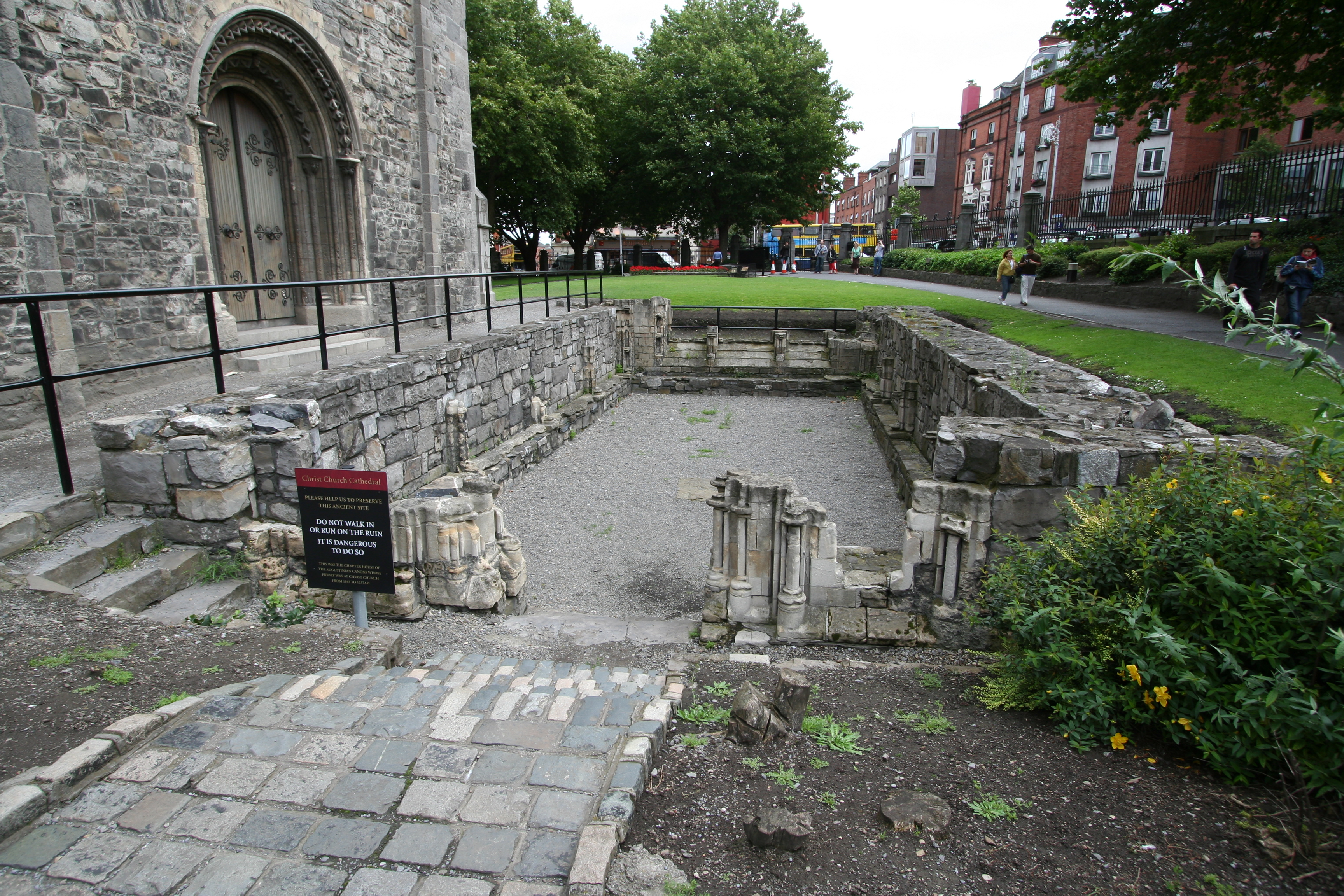 Ruin of the chapter house of the Augustinian Priory at Christ Church Cathedral (Dublin)Christchurch